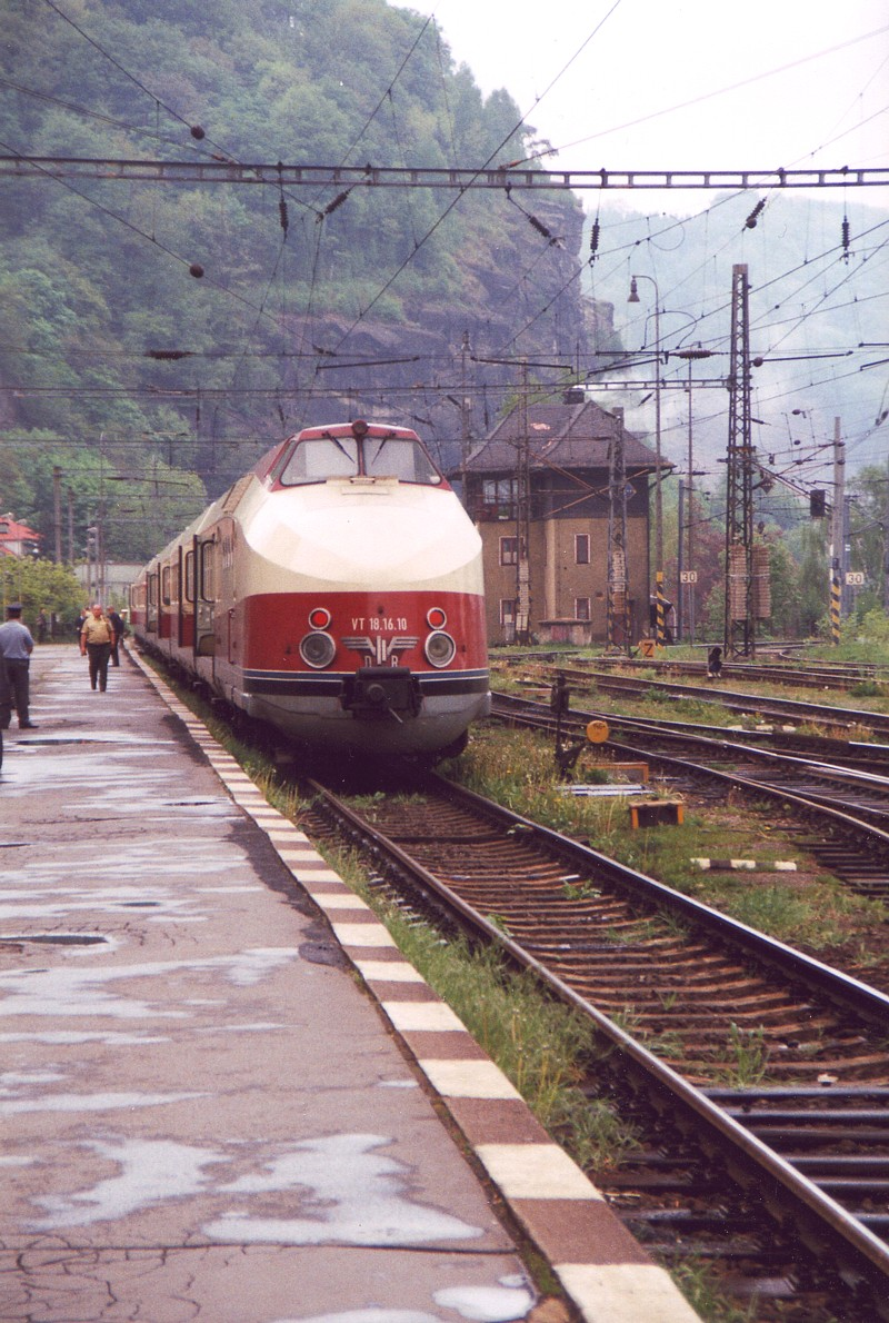 diesel multiple unit DR VT 18.16 in station Děčín, Czech Republic